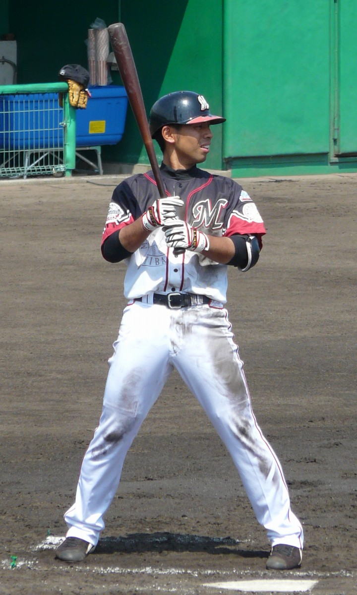 Ken-Shinzato